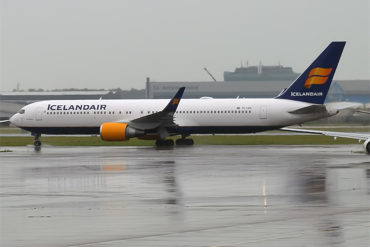 Icelandair, TF-ISN, Boeing 767-319 ER